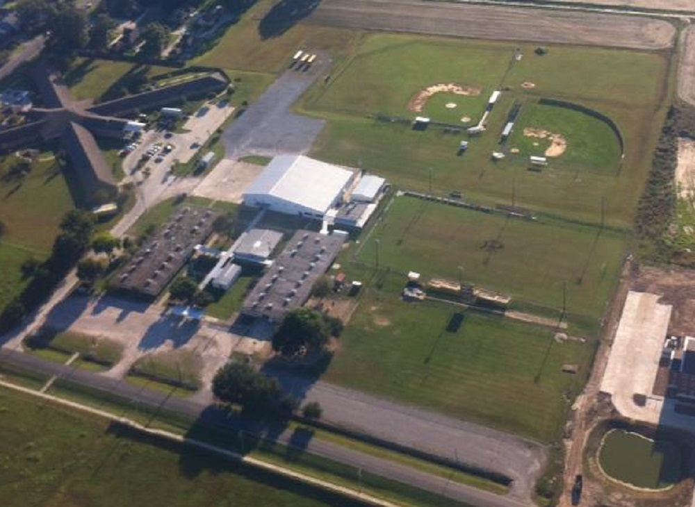 Aerial photo of False River Academy.